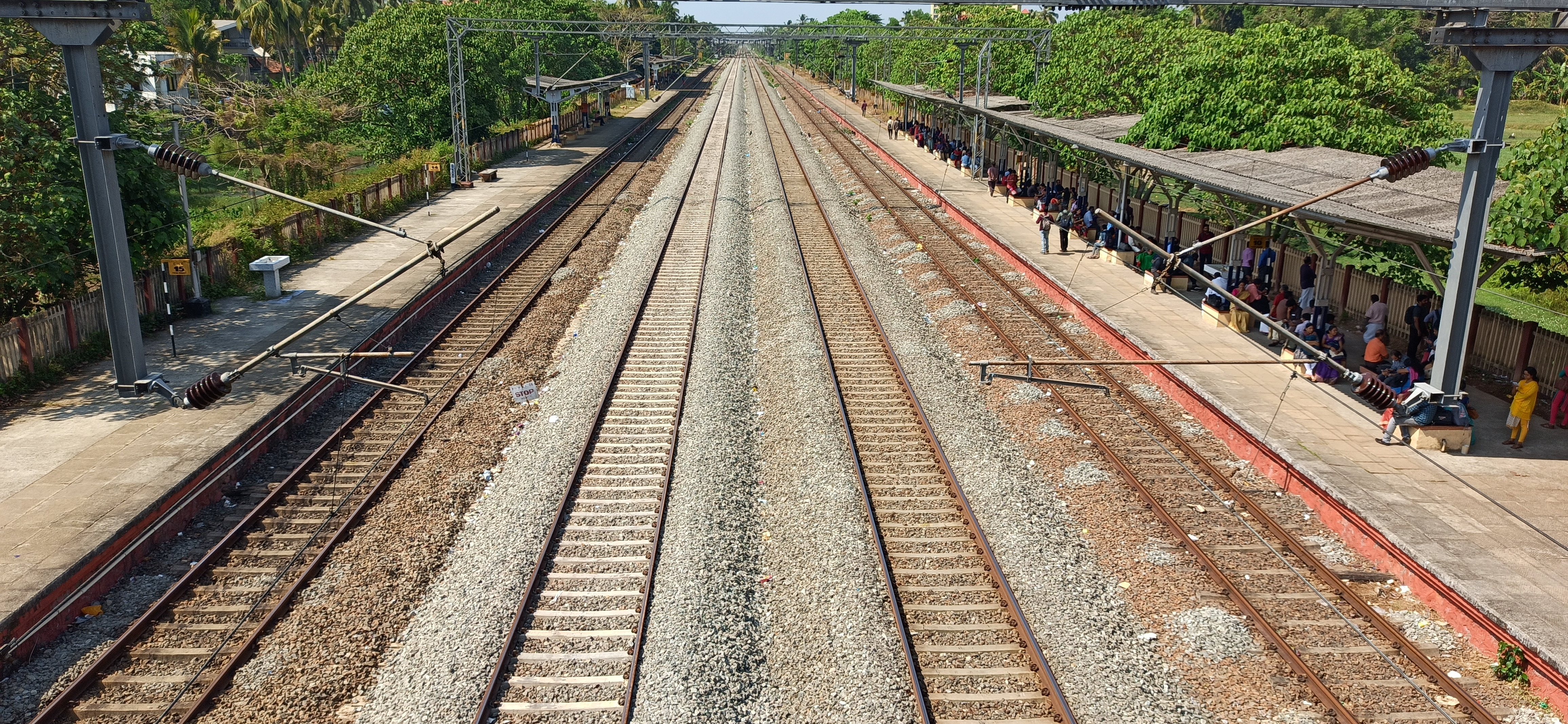 Tripunithura railway station is a (NSG 5 Category) railway terminal located at Tripunithura, Kochi, in the Indian state of Kerala